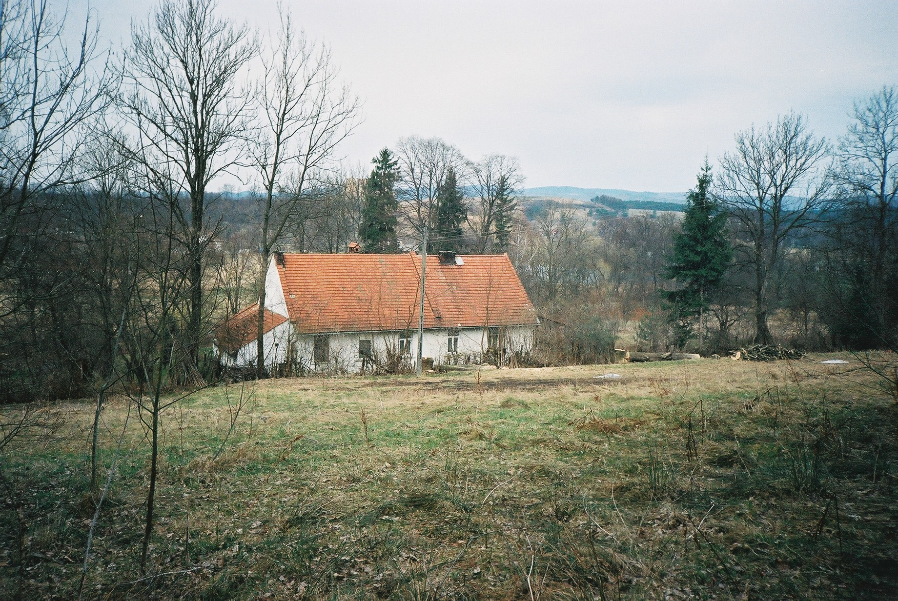 Widok na dwór w Wielopolu